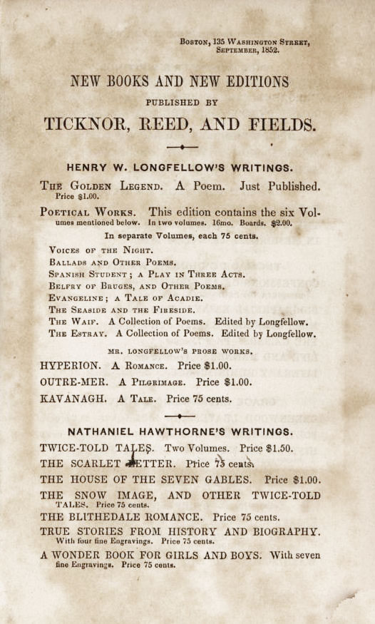 Advertisement for the Boston, Massachusetts publishing house of Ticknor, Reed, & Fields from September 1852, showing offerings by authors Henry Wadsworth Longfellow and Nathaniel Hawthorne. Found in a copy of De Quincey's Writings: Biographical essays, Google Books